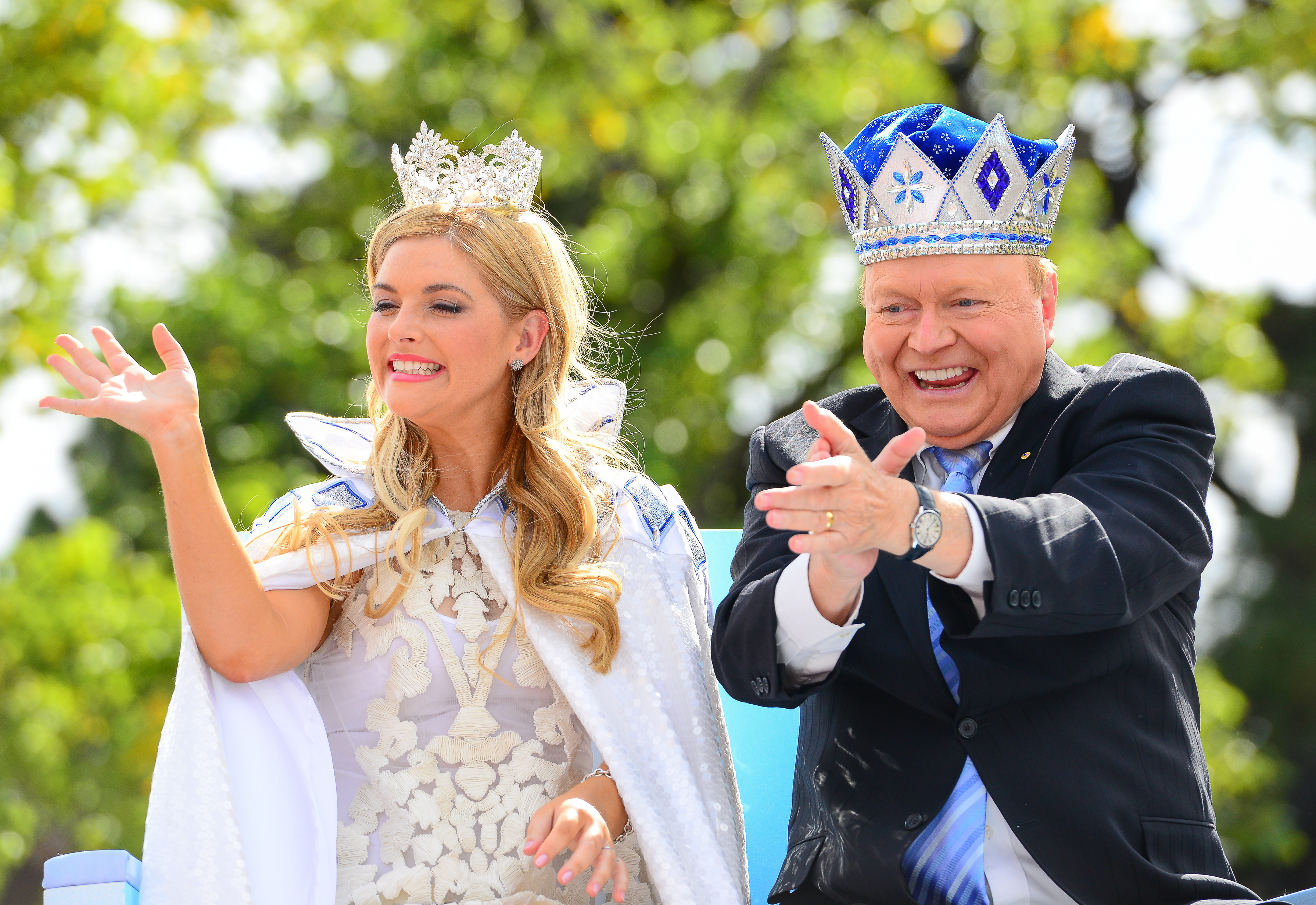 King and Queen of Moomba, Bert Newton and Lucy Durack. Newton is a much loved Australian television personality icon and stage performer. He was quite popular in the 70's and 80's appearing on prime time TV game & variety talk shows and appeared in a few local movies. He is commonly known for his sense of humour. This is the second time he has been crowned King of Moomba, the first in 1978. Durack is an Australian musical theatre performer recognised for the playing the Australian stage play, Wicked.